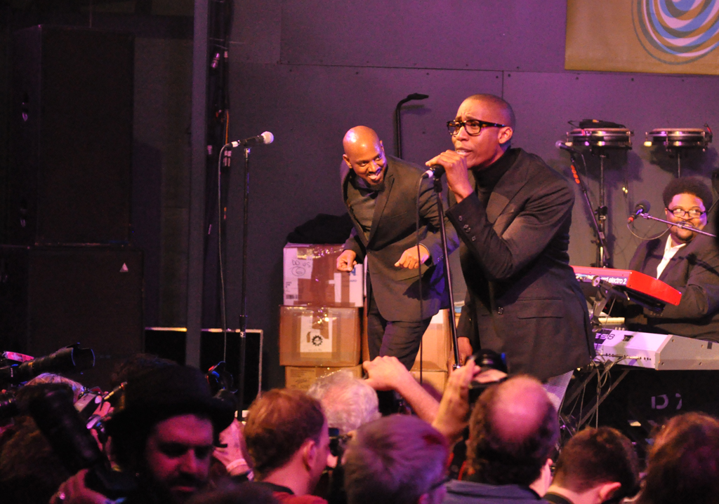 Raphael Saadiq performing at Stubb's Bar-B-Q, South by Southwest festival in Austin, Texas, March 2011